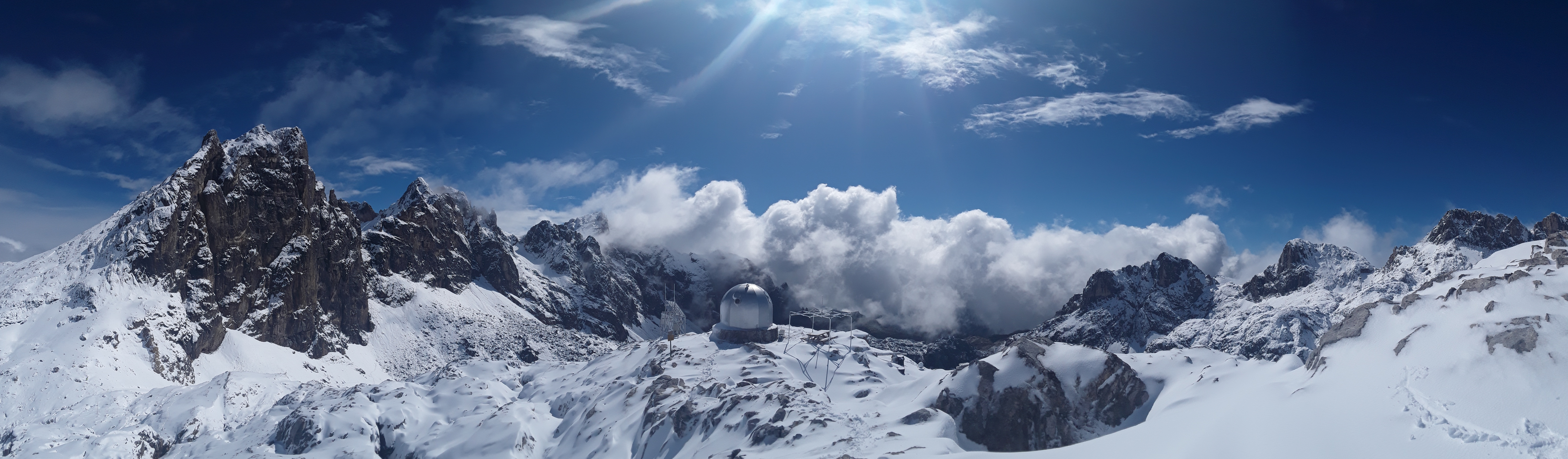 Cabaña Verónica is a small mountain retreat located in the municipality of Camaleño (Cantabria, Spain), at 2325 meters altitude in the foothills of the Pico Tesorero (Tesorero Peak), in the Central Massif of the Picos de Europa.